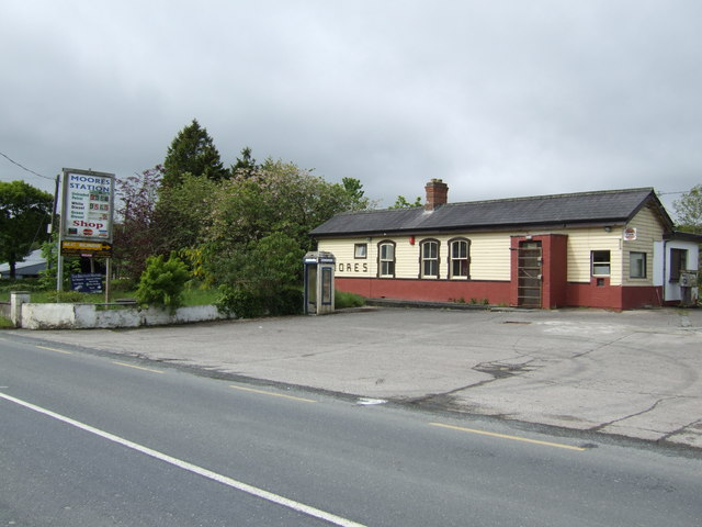 Moore's Station. A border business at Creaghanroe, Co. Monaghan. The location of the former Creaghanroe railway station, on the Castleblaney, Keady and Armagh Railway, which became part of the Great Northern Railway (Ireland).